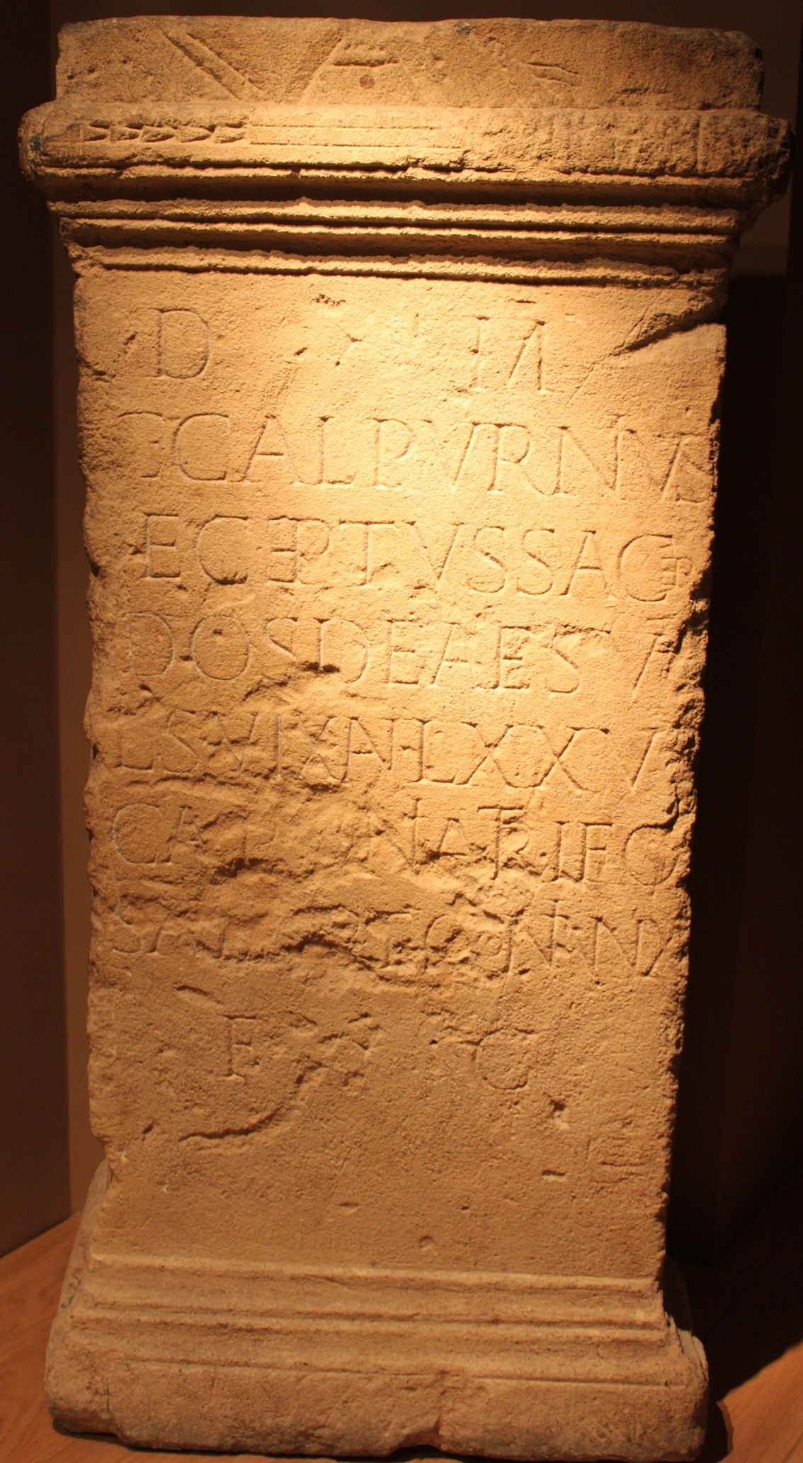 Ancient Roman inscription in Bath. Grave of the priest of Sulis, Calpurnius Receptus. CIL VII, 53 ; RIB, 155